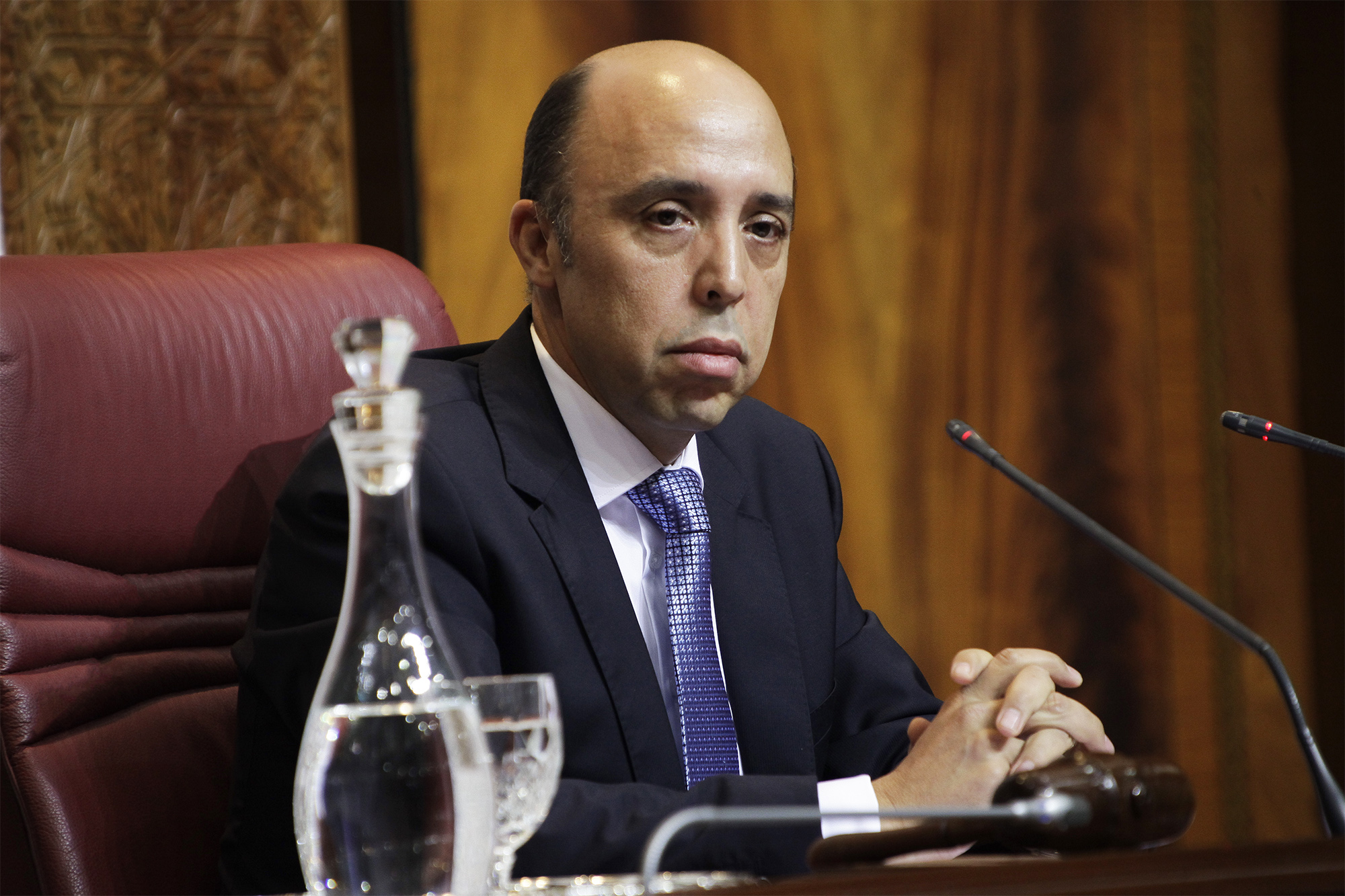 Chafik Rachadi chairs a parliamentary constitutional meeting.